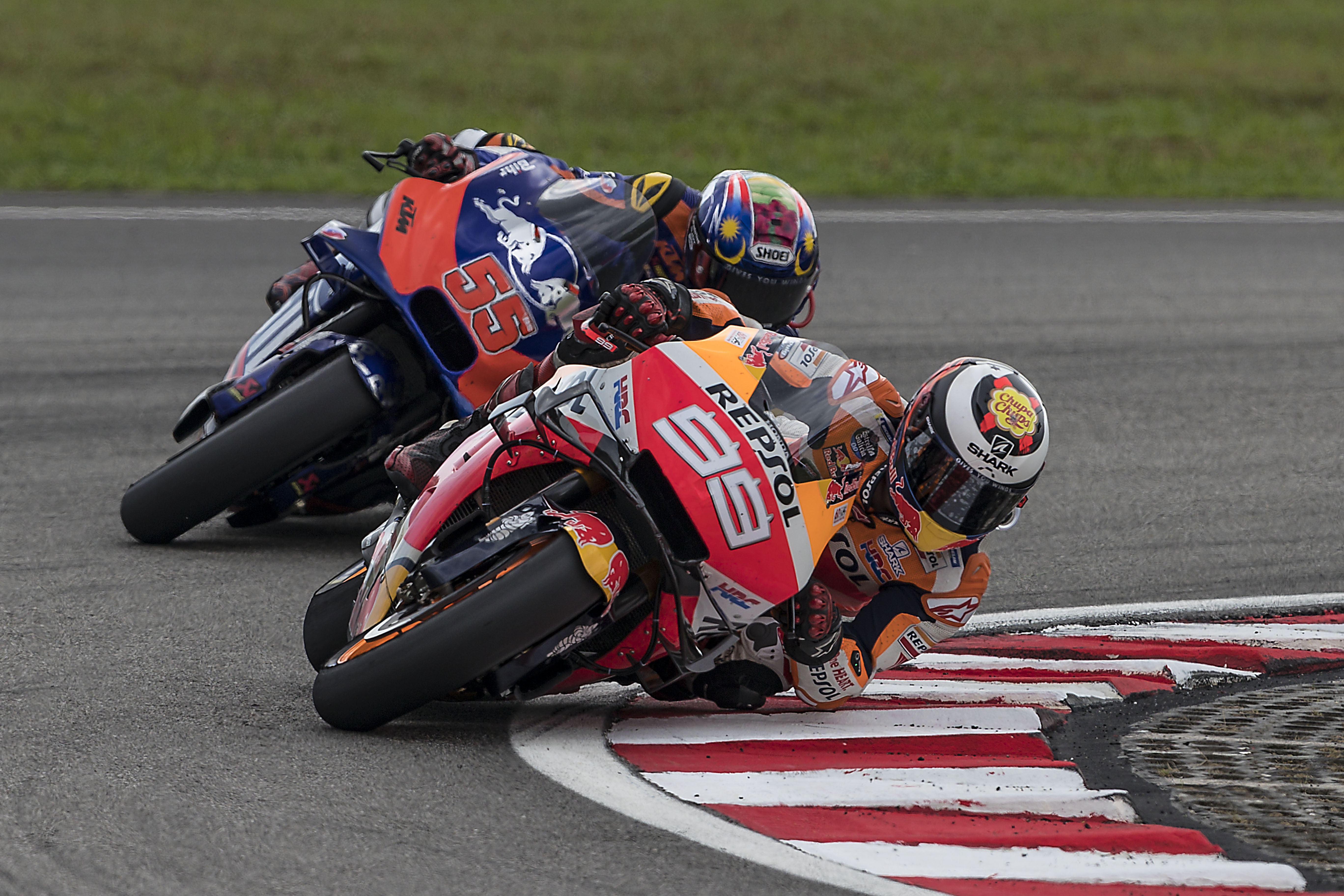 Jorge Lorenzo, riding his Repsol Honda, being closely followed by the Red Bull Tech 3 KTM of Hafizh Syahrin at the 2019 Malaysian Grand Prix.